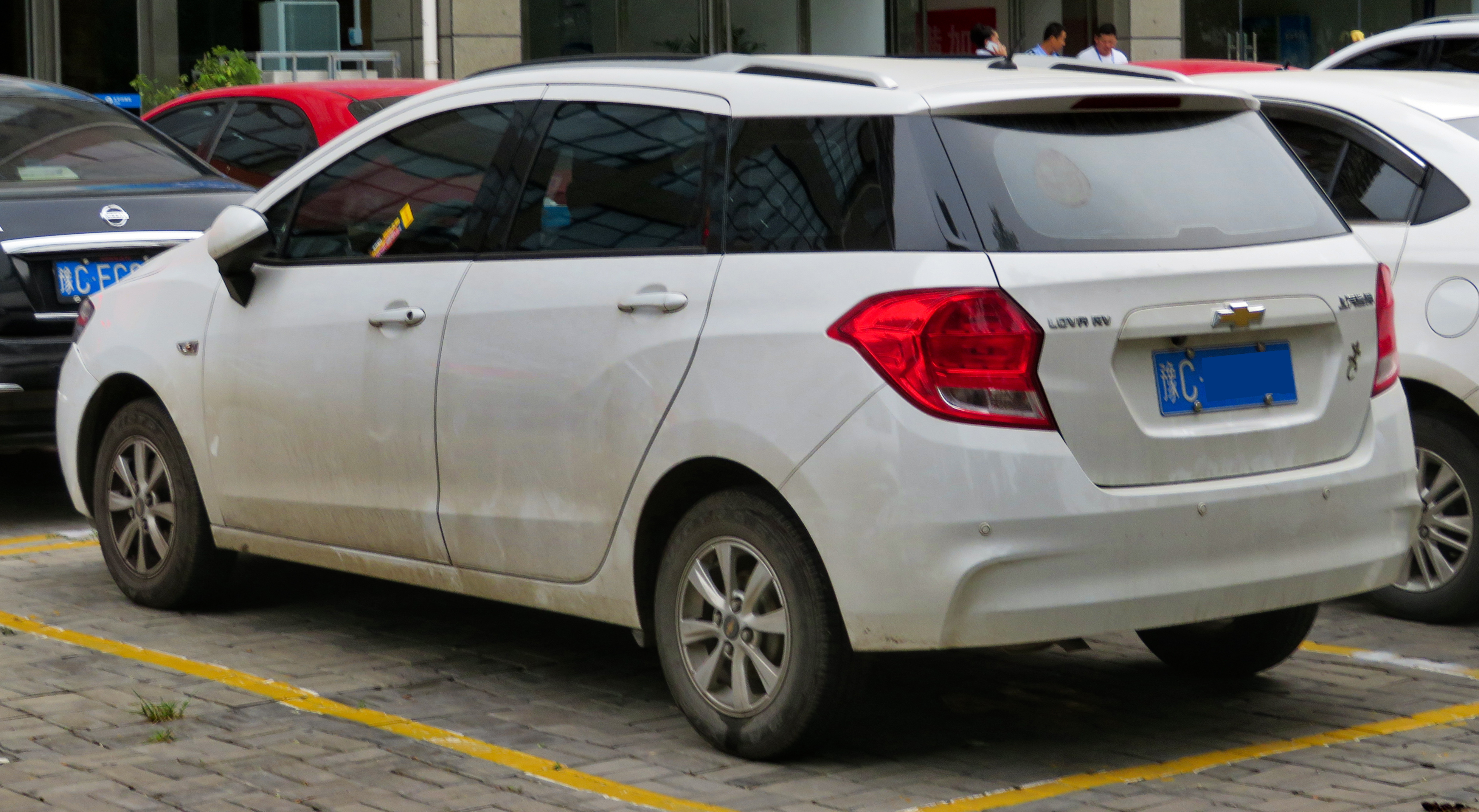 A 2017 SAIC-GM-Chevrolet Lova RV photographed in Xigong District, Luoyang, Henan province, China